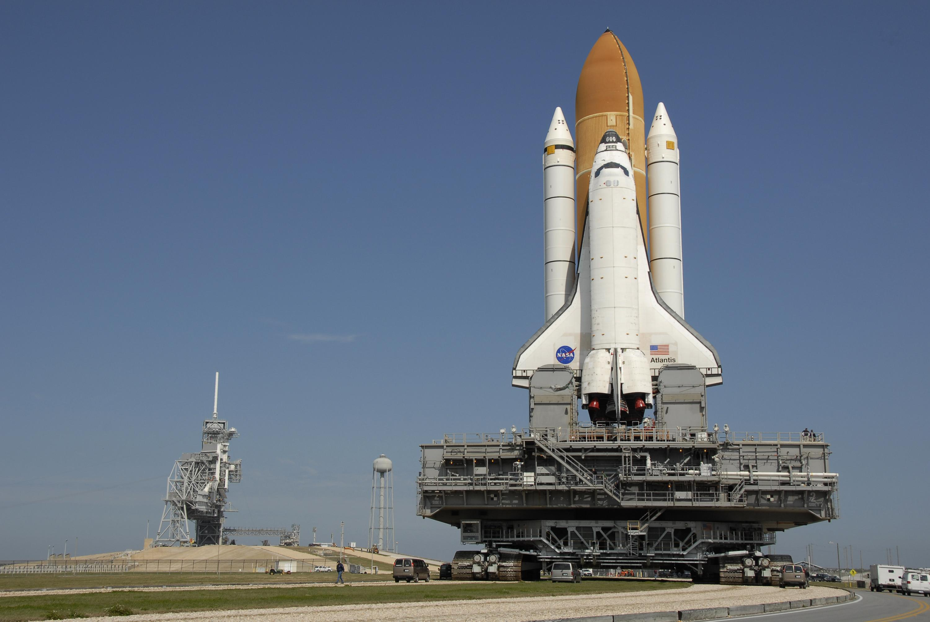 KENNEDY SPACE CENTER, FLA. -- Space Shuttle Atlantis, atop the mobile launcher platform and crawler-transporter, slowly makes its way to Launch Pad 39A, at left. First motion of the shuttle out of the Vehicle Assembly Building was at 8:19 a.m. The 3.4-mile trip to the pad along the crawlerway takes about 6 hours. The mission payload aboard Space Shuttle Atlantis is the S3/S4 integrated truss structure, along with a third set of solar arrays and batteries. The crew of six astronauts will install the truss to continue assembly of the International Space Station. Launch is targeted for March 15.